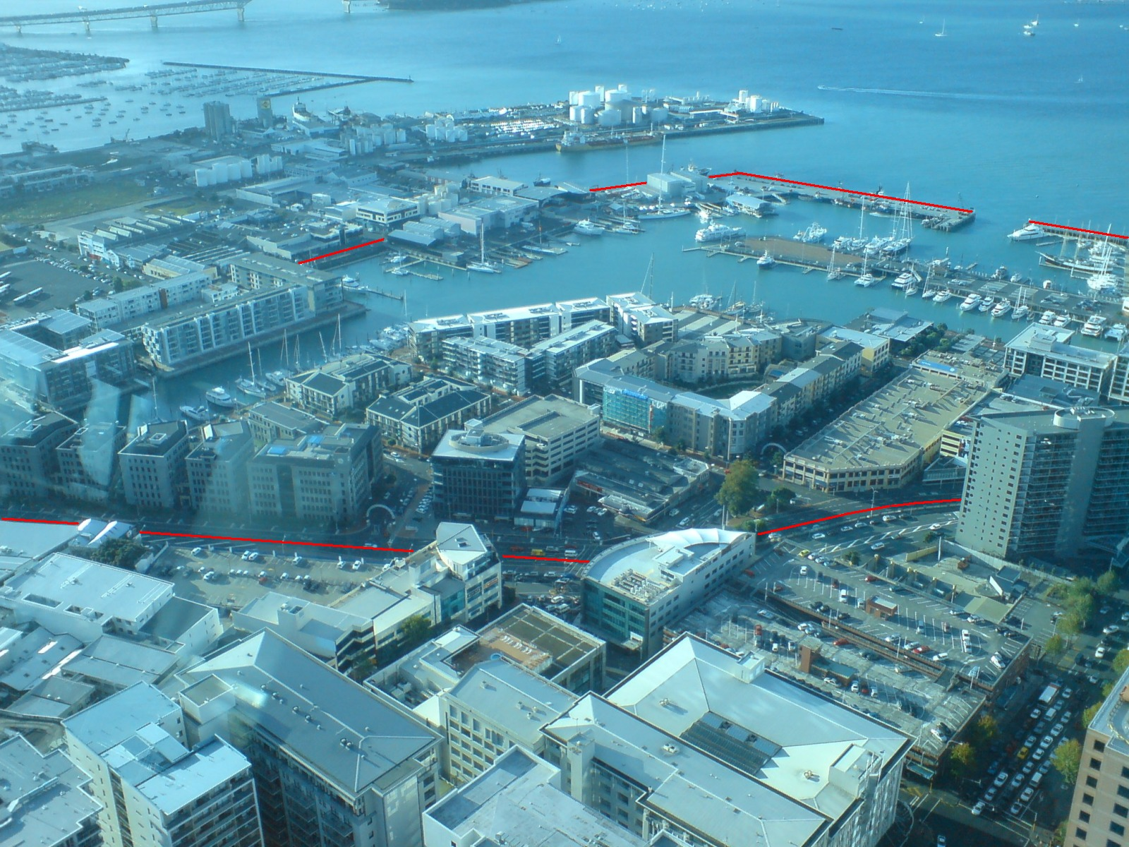 Viaduct Basin in Auckland, New Zealand seen from the Sky Tower looking northwest. The red lines show the approximate boundaries.